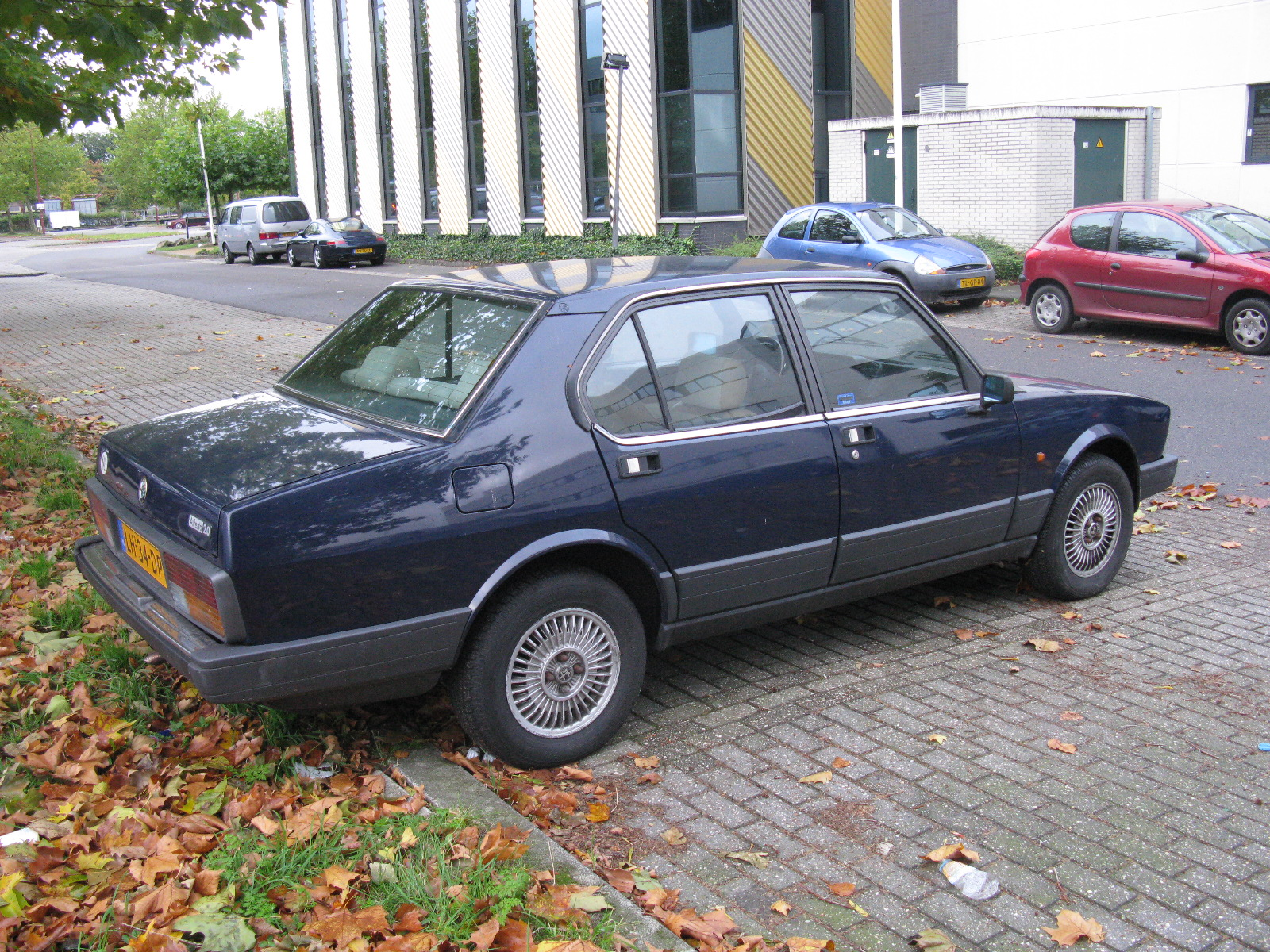 1984 Alfa Romeo Alfetta 2.0 at Volvo Klassiekers Beurs, Utrecht